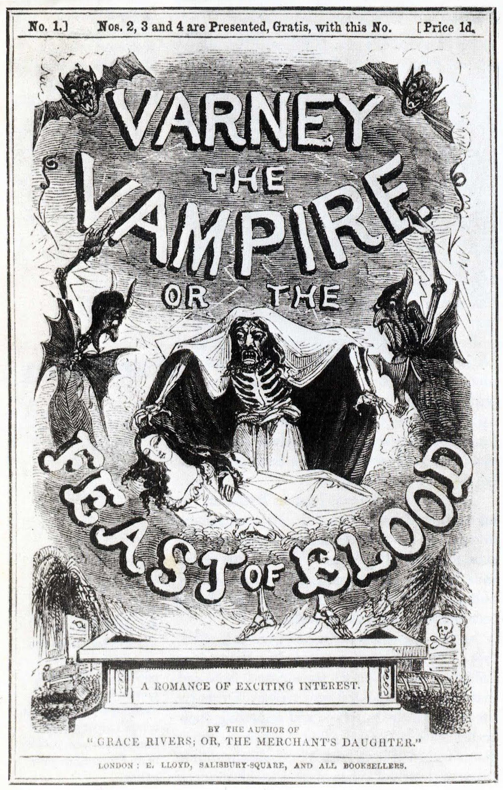 The cover page from a reprint of the British penny dreadful series Varney the Vampire (1845)